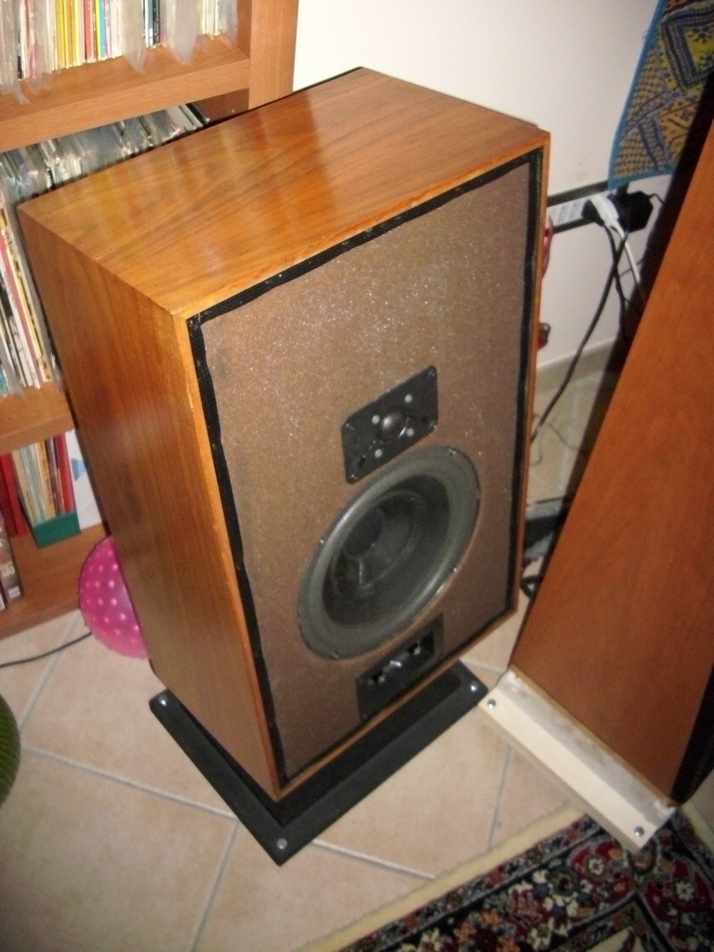 Cizek Model One Speaker (mine)